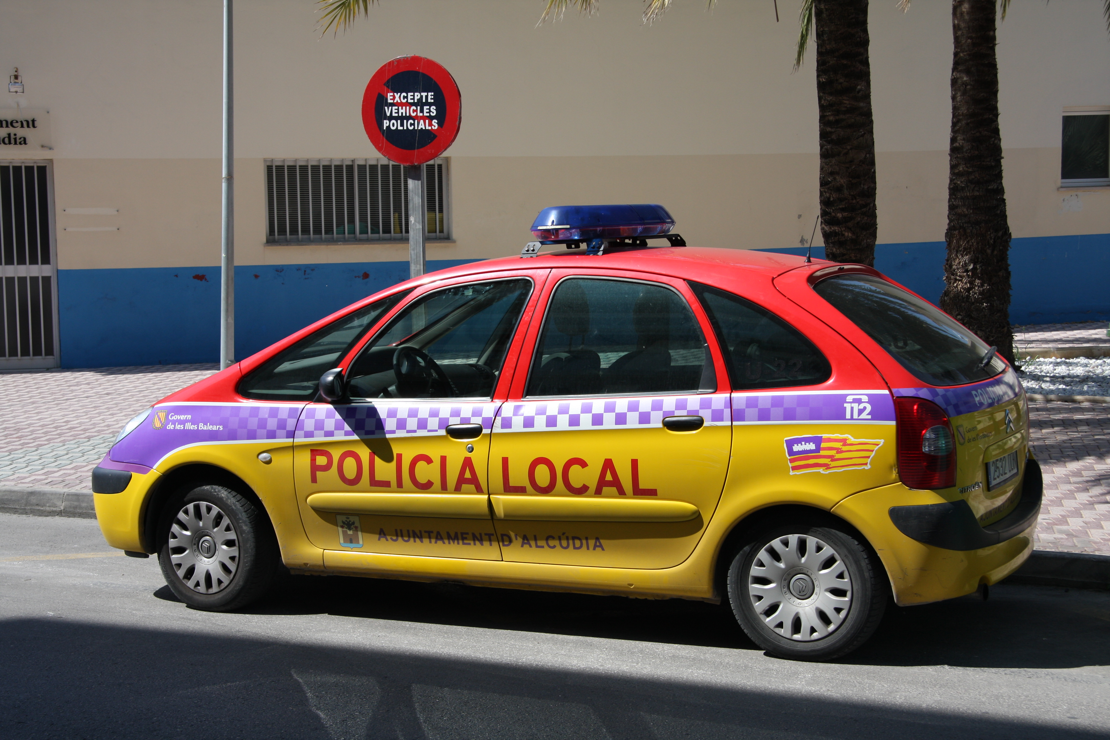 Citroën Xsara Picasso of the Spanish Policia Local as seen in Alcudia on Mallorca